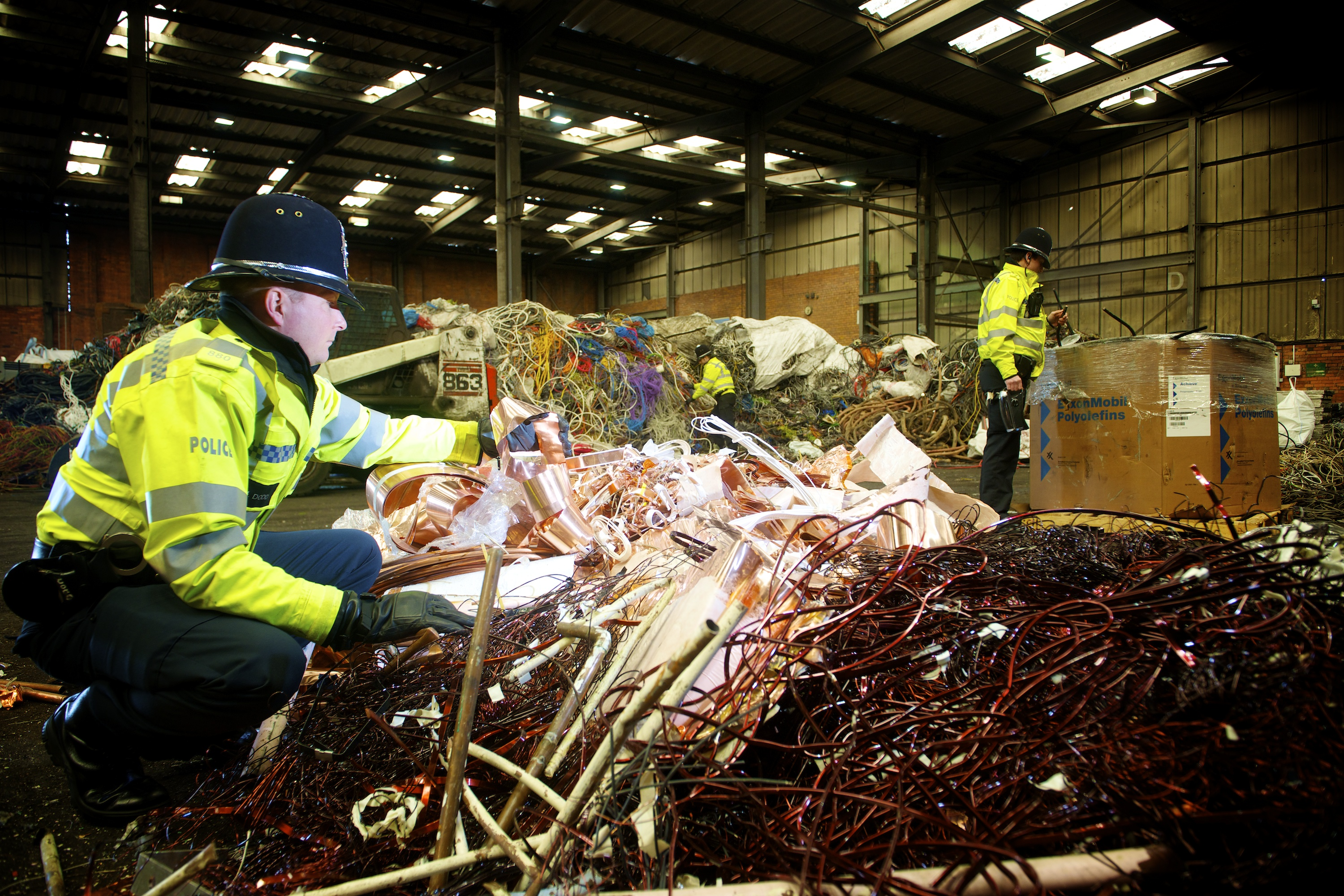 Day 56 - West Midlands Police tackling metal theft Officers across the force are regularly visiting scrap metal merchants to deter metal theft and educate staff about the telltale signs of stolen materials. These officers are from the Sandwell Metal Theft team. This image forms part of the West Midlands Police 'Photo of the Day 2012' project.